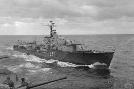 Royal Canadian Navy V class destroyer HMCS Sioux, photographed from HMAS Sydney III, probably in Korean waters.